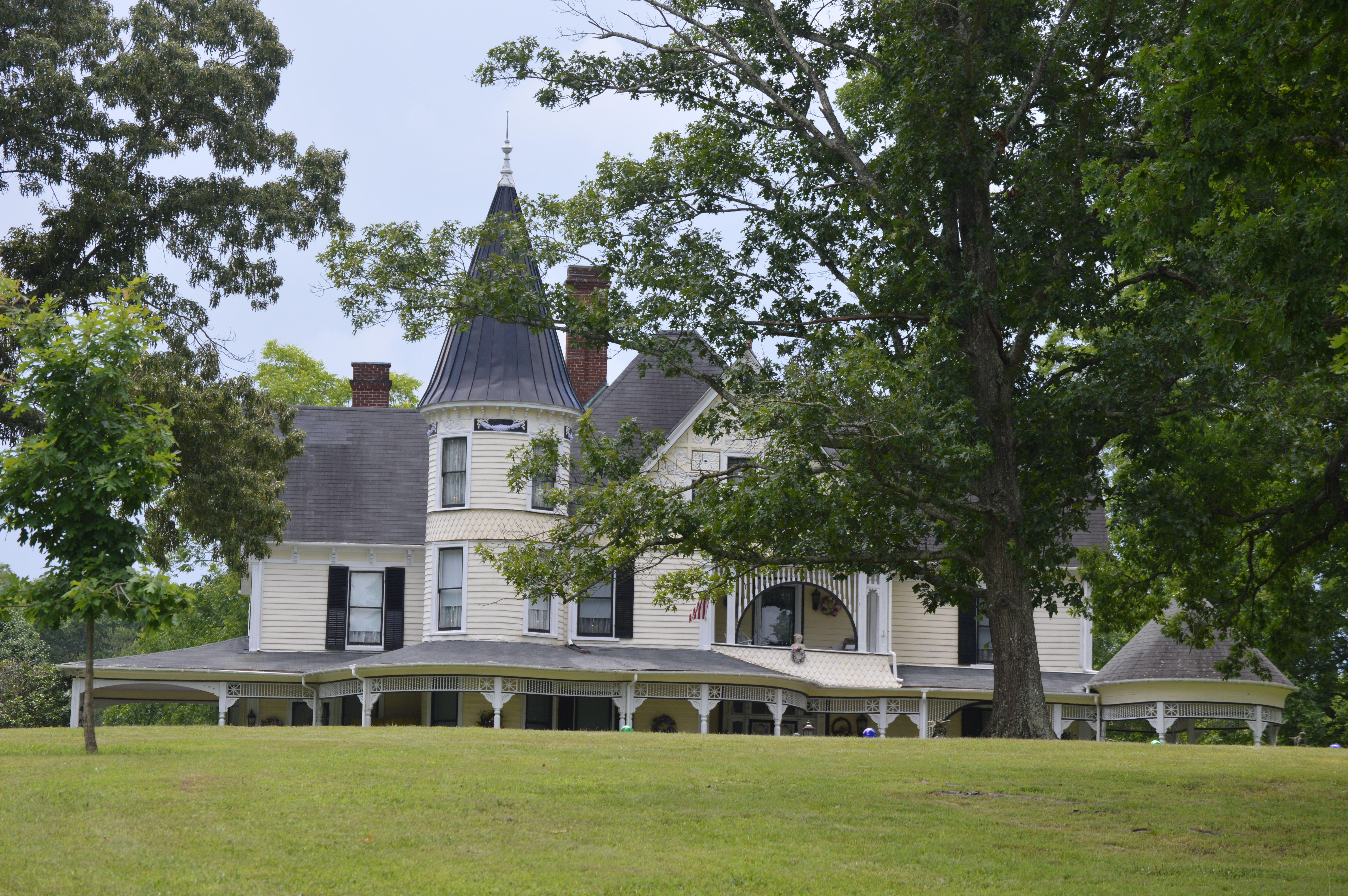 Front of On the Hill, located at 982 Jefferson Street in Boydton, Virginia, United States. Built in the 1790s and completely rebuilt in 1886, it is listed on the National Register of Historic Places.